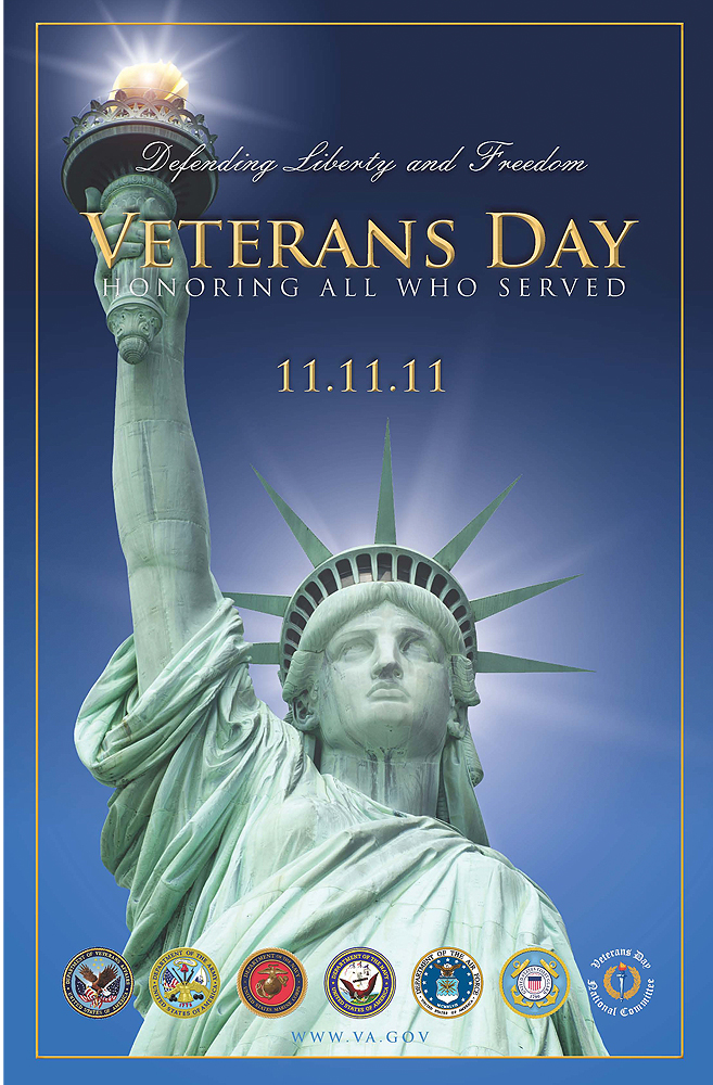 Veterans Day 2011 poster from the United States Department of Veterans Affairs: Defending Liberty and Freedom Veterans Day Honoring All Who Served 11.11.11